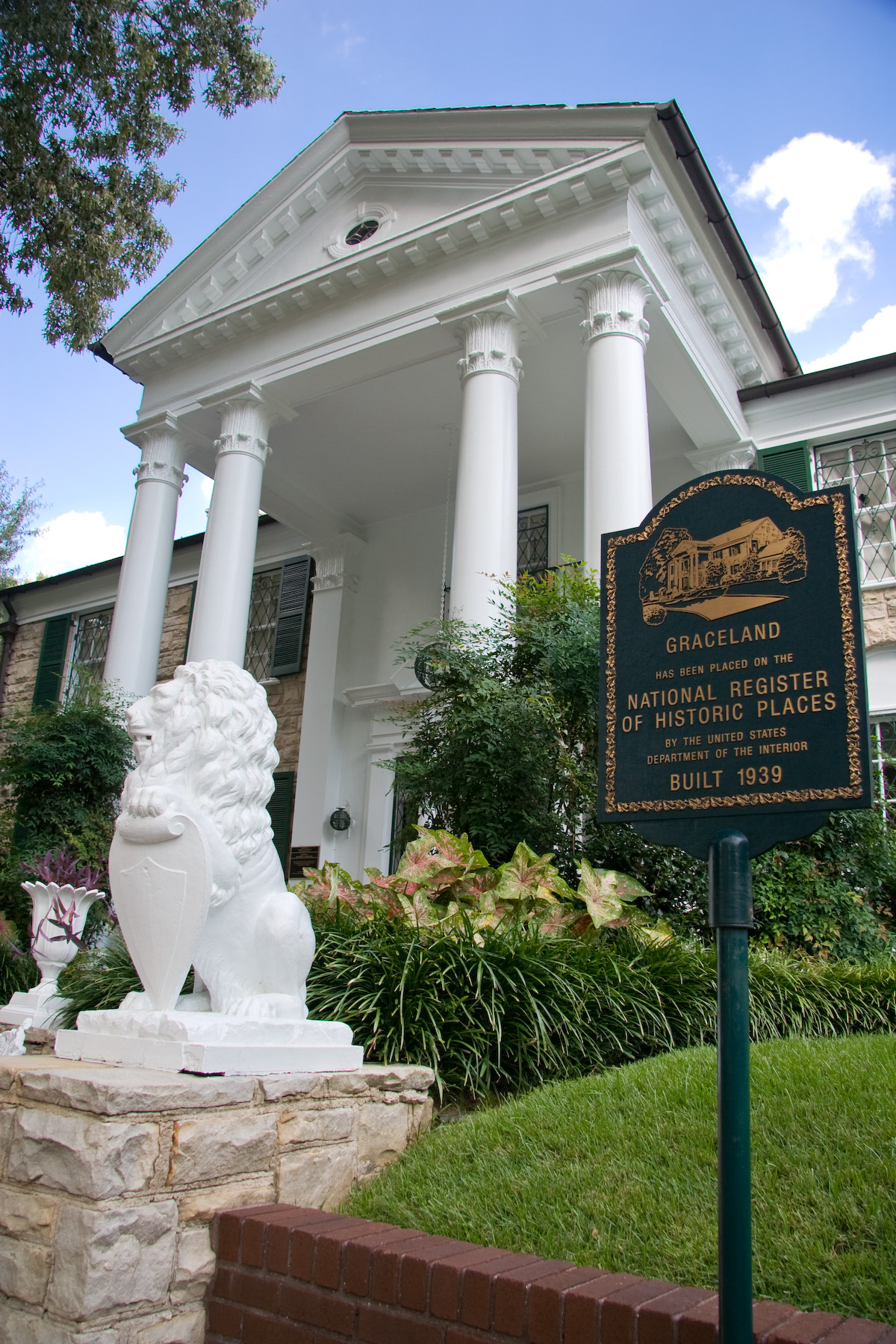 Elvis' mansion, Graceland, in Memphis, Tennessee